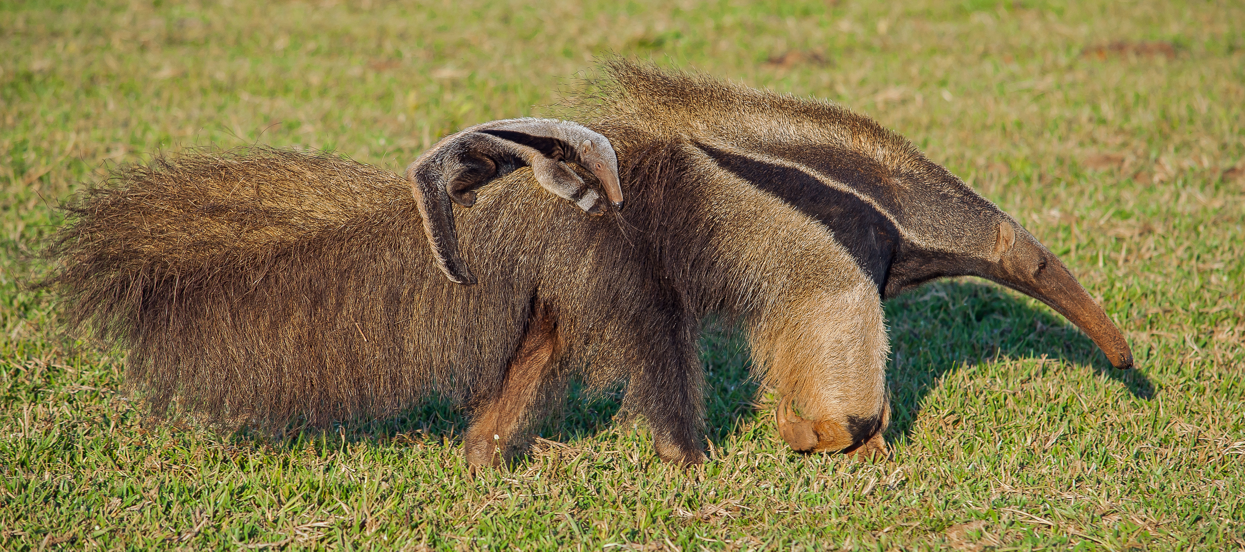 Giant anteater (Myrmecophaga tridactyla) with cub, in farm in the rural area of Campo Grande. This image was obtained by color adjustment and cropping of image Tamanduá-bandeira com filhote em pastagem.jpg